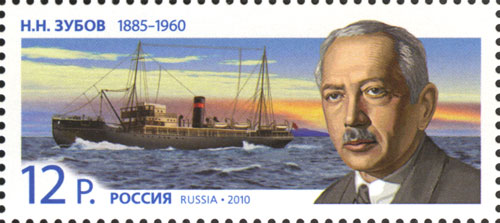 Stamp of the Russia, Nikolai Zubov, 2010.